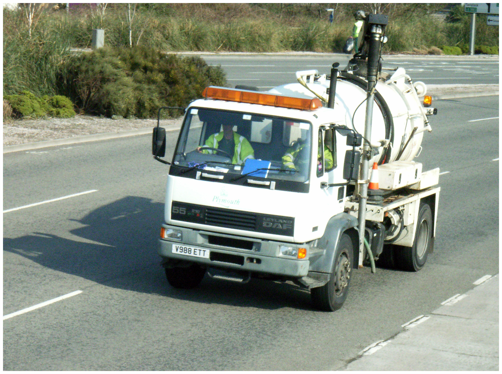 26 March 2007 Marsh Mills Plymouth V988ETT 007.004 LEYLANDDAF FA 55.210 GOODS 5880cc (10/12/1999) DIESEL As Featured in On The Road Plymouth A 2 Z